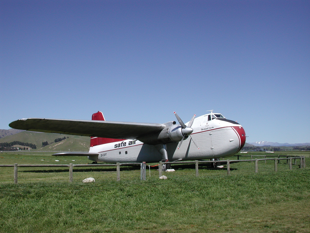 Bristol Freighter at Omaka Aviation Heritage Centre